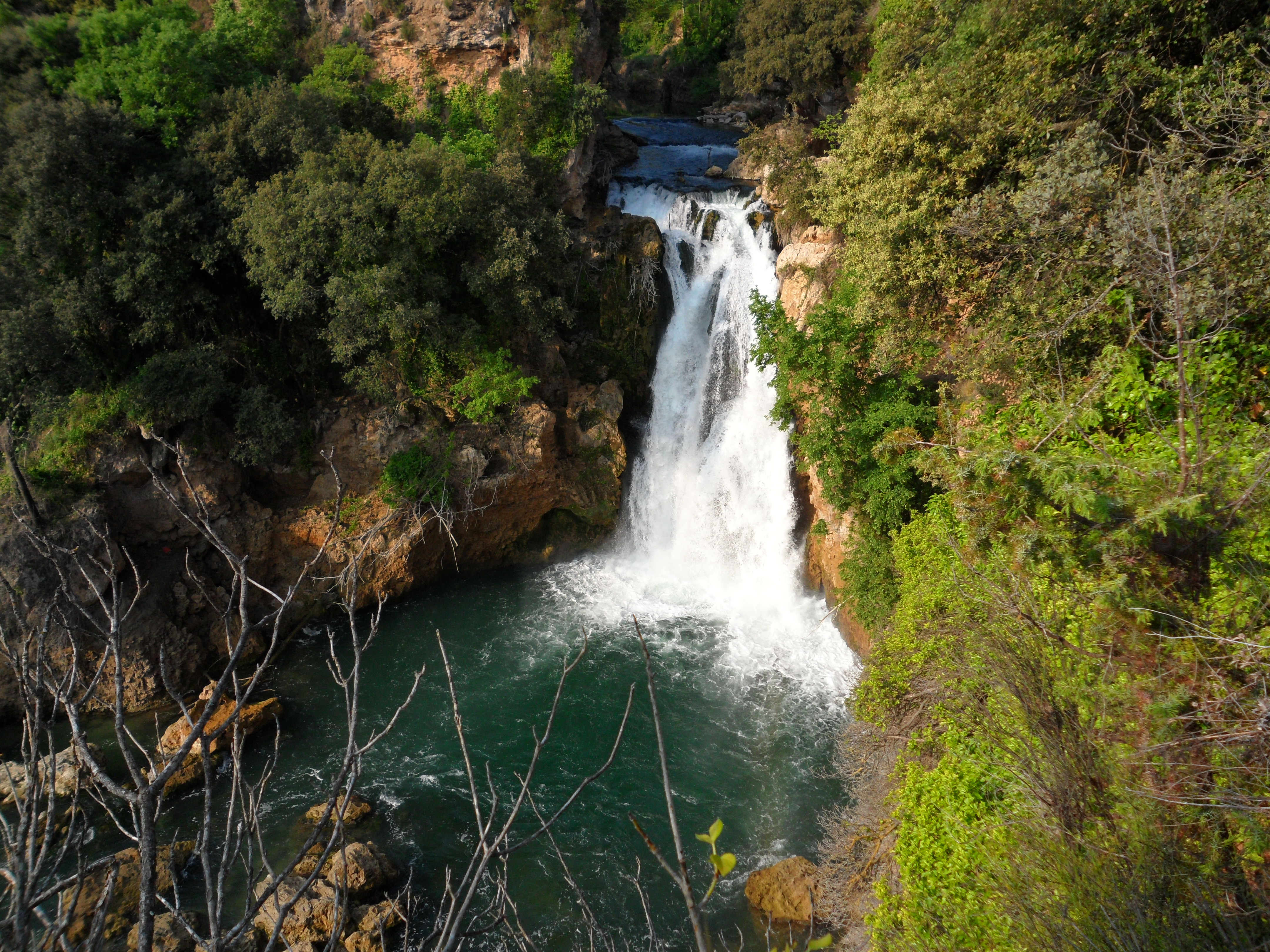 Downfall of river Naturby near La Motte